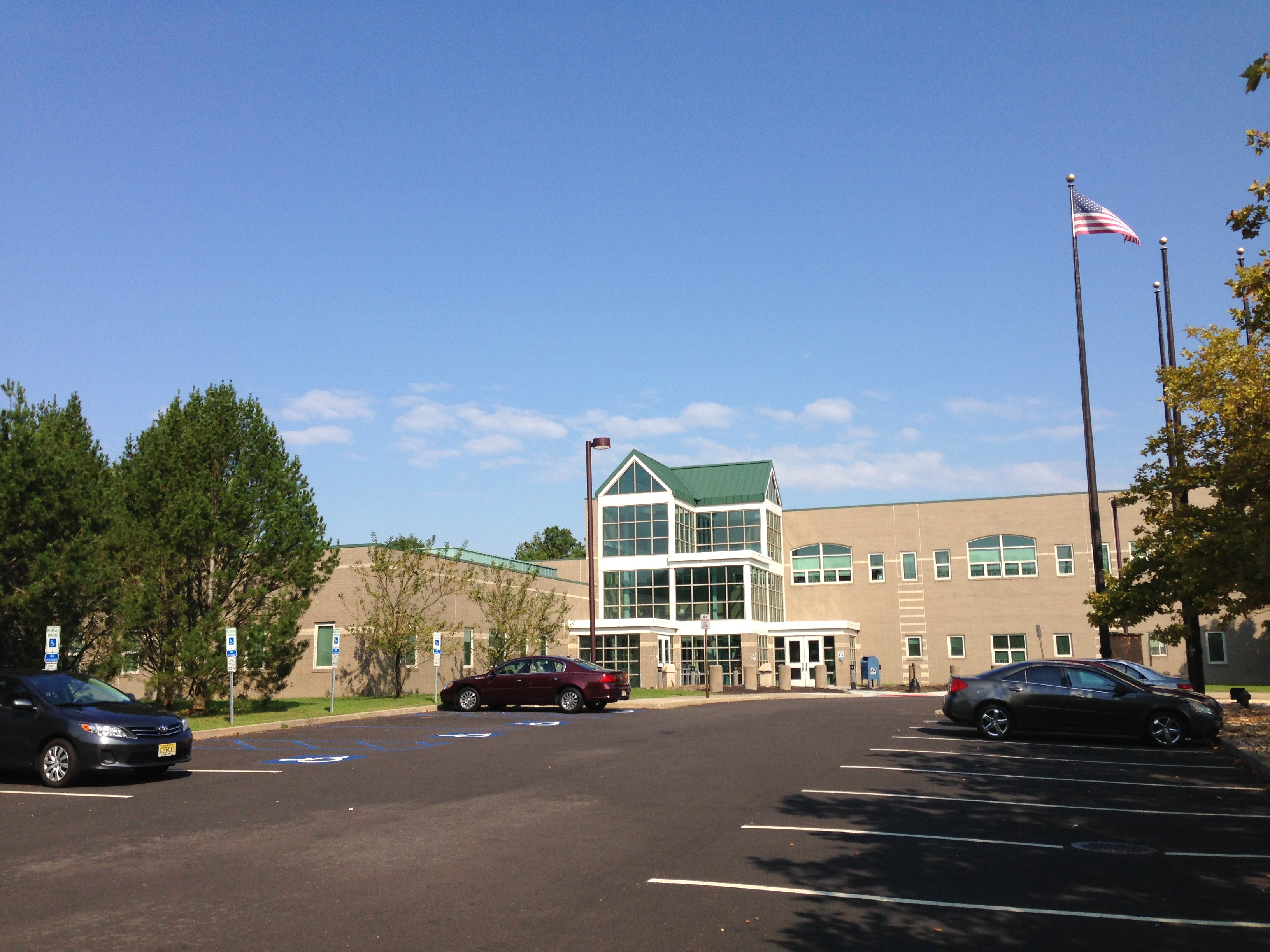 Closer view of the Ewing Township Munipal Building in Ewing, New Jersey on August 26th 2013